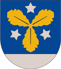 coat of arms of the city of Aizkraukle, Latvia.